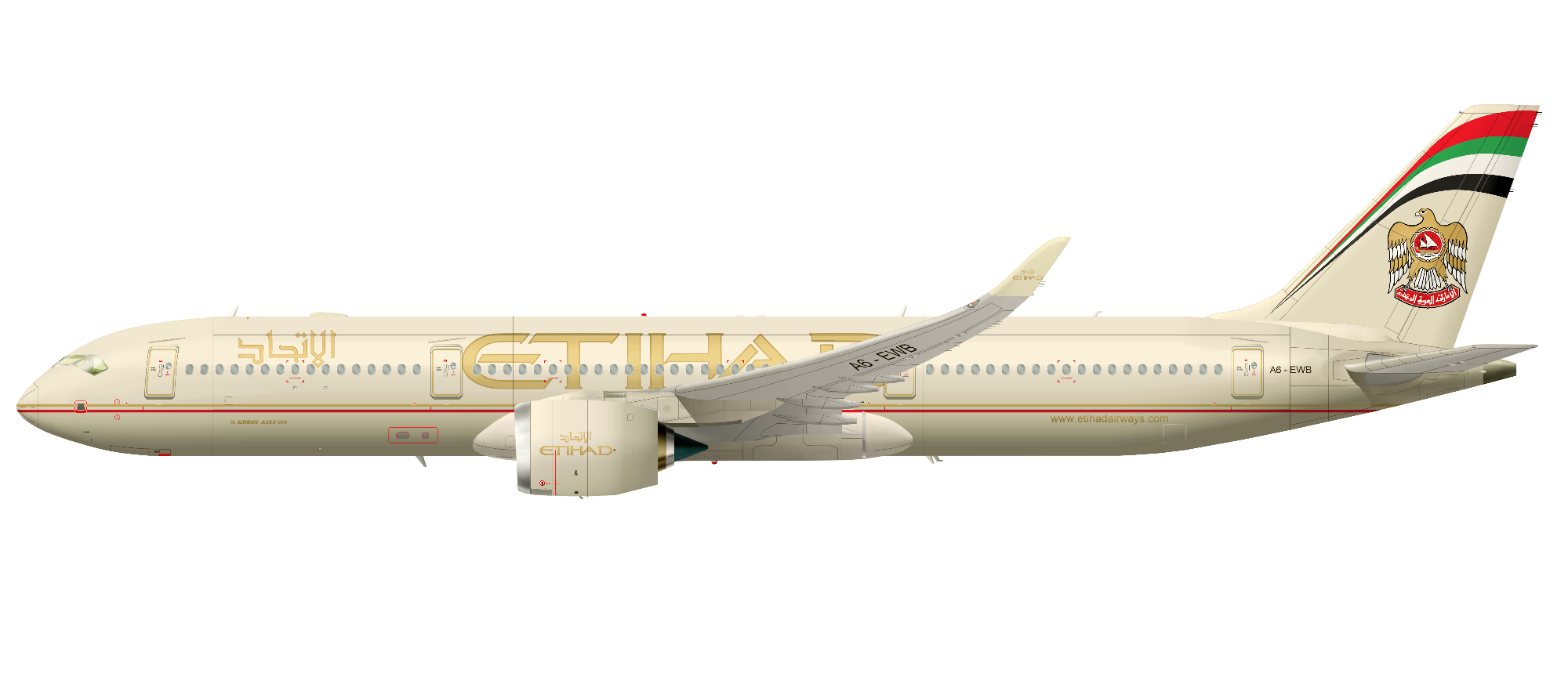 Profile of an Airbus A350XWB on Etihad Airways livery.